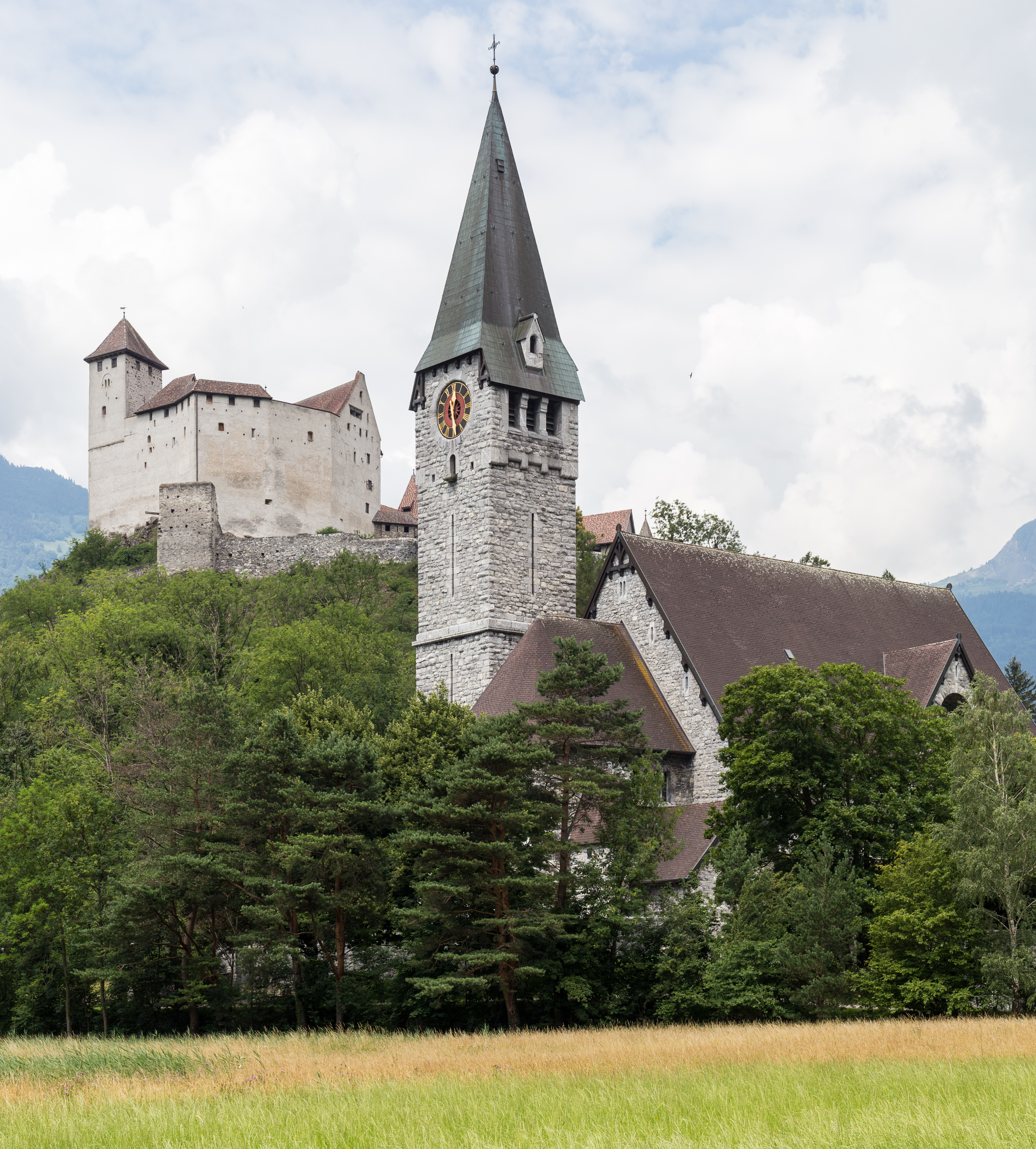 Church St. Nikolaus and Gutenberg castle in Balzers, Liechtenstein